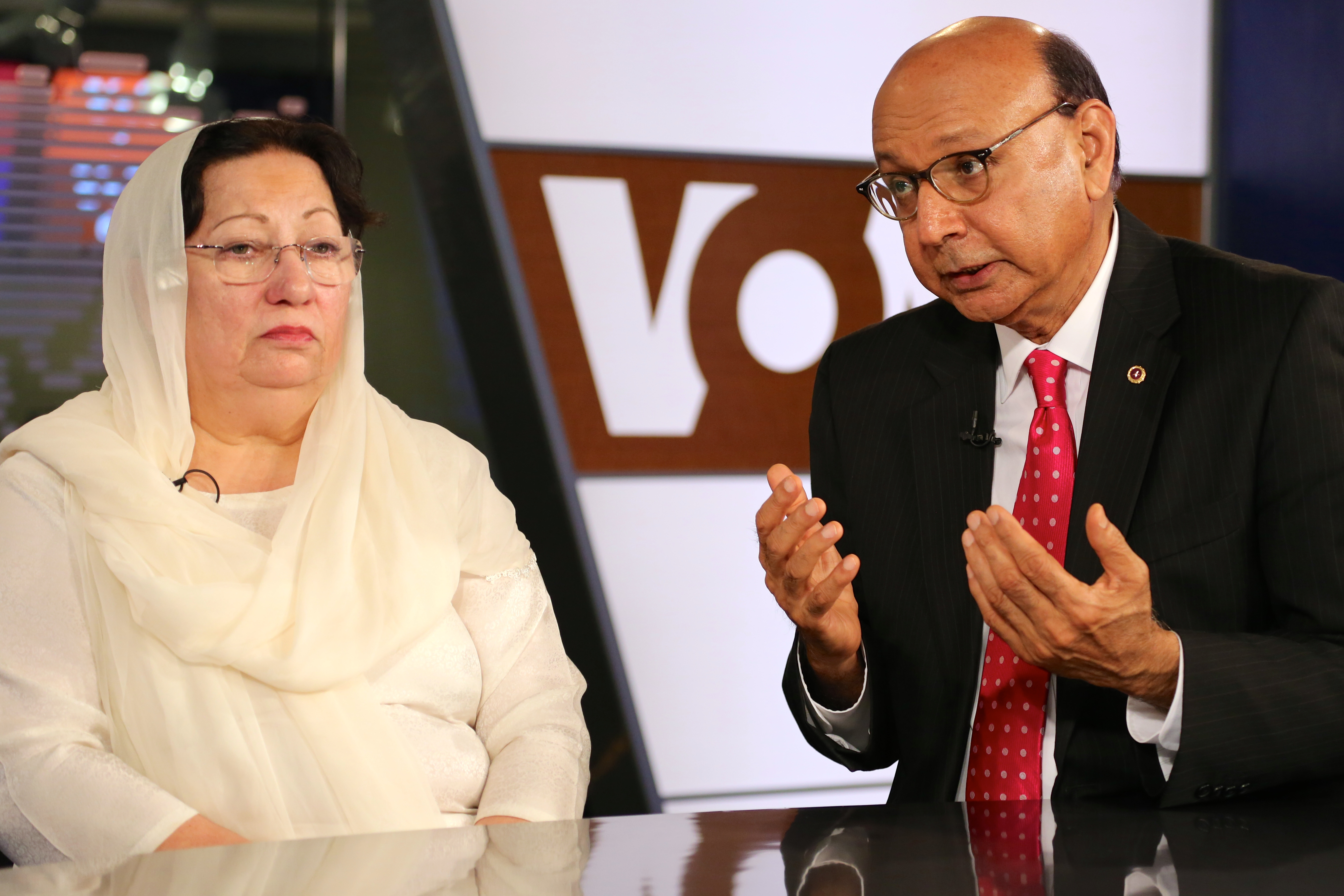 Khizr and Ghazala Khan, the parents of an Army captain killed in Iraq, speak with VOA's Urdu service in Washington, D.C., Aug. 1, 2016. (B. Allen/VOA)